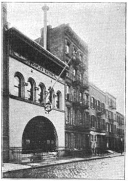 People's Bath House 9 Centre Market Pl.